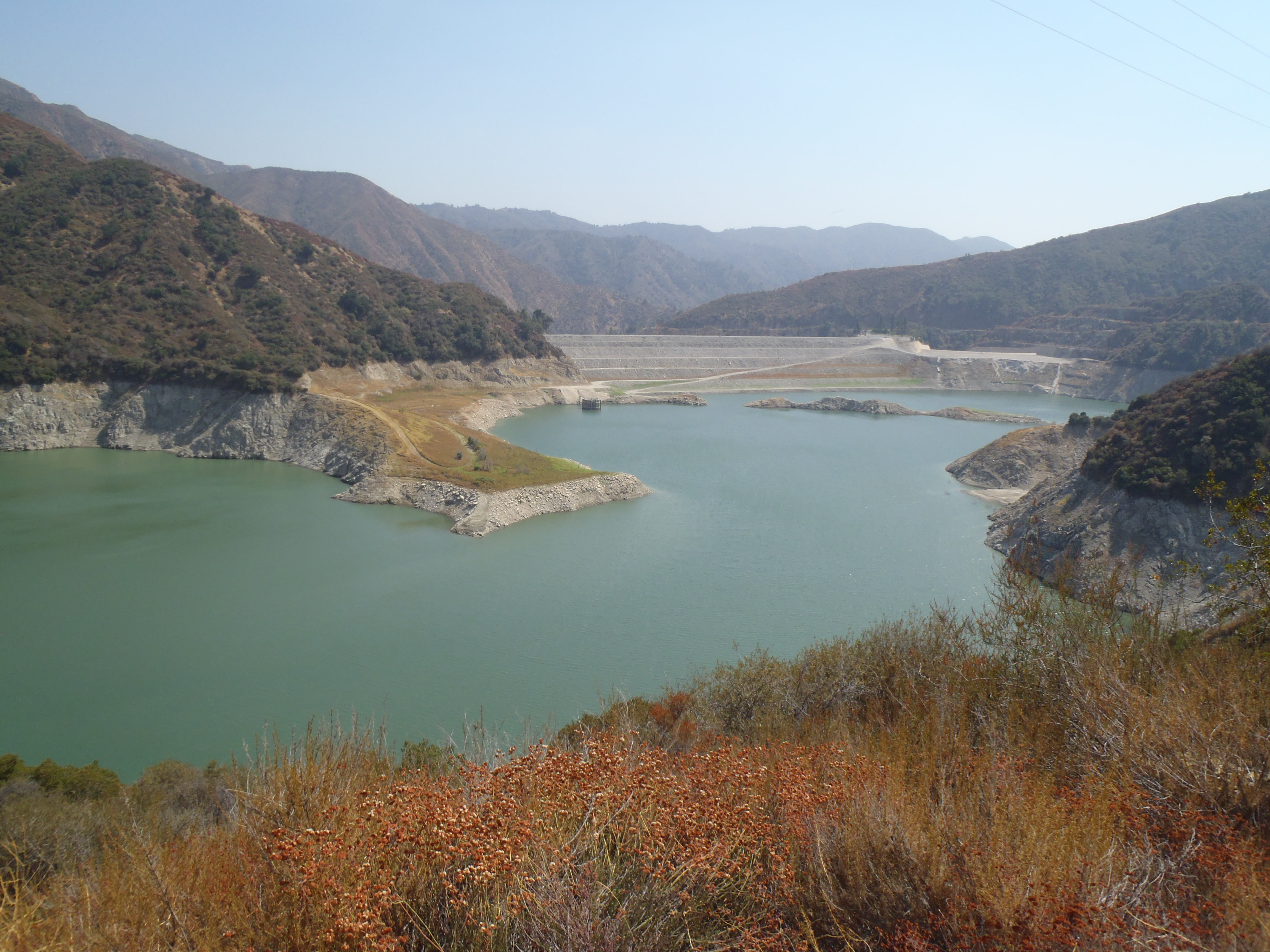 View of the San Gabriel Dam in Los Angeles County, California, USA.